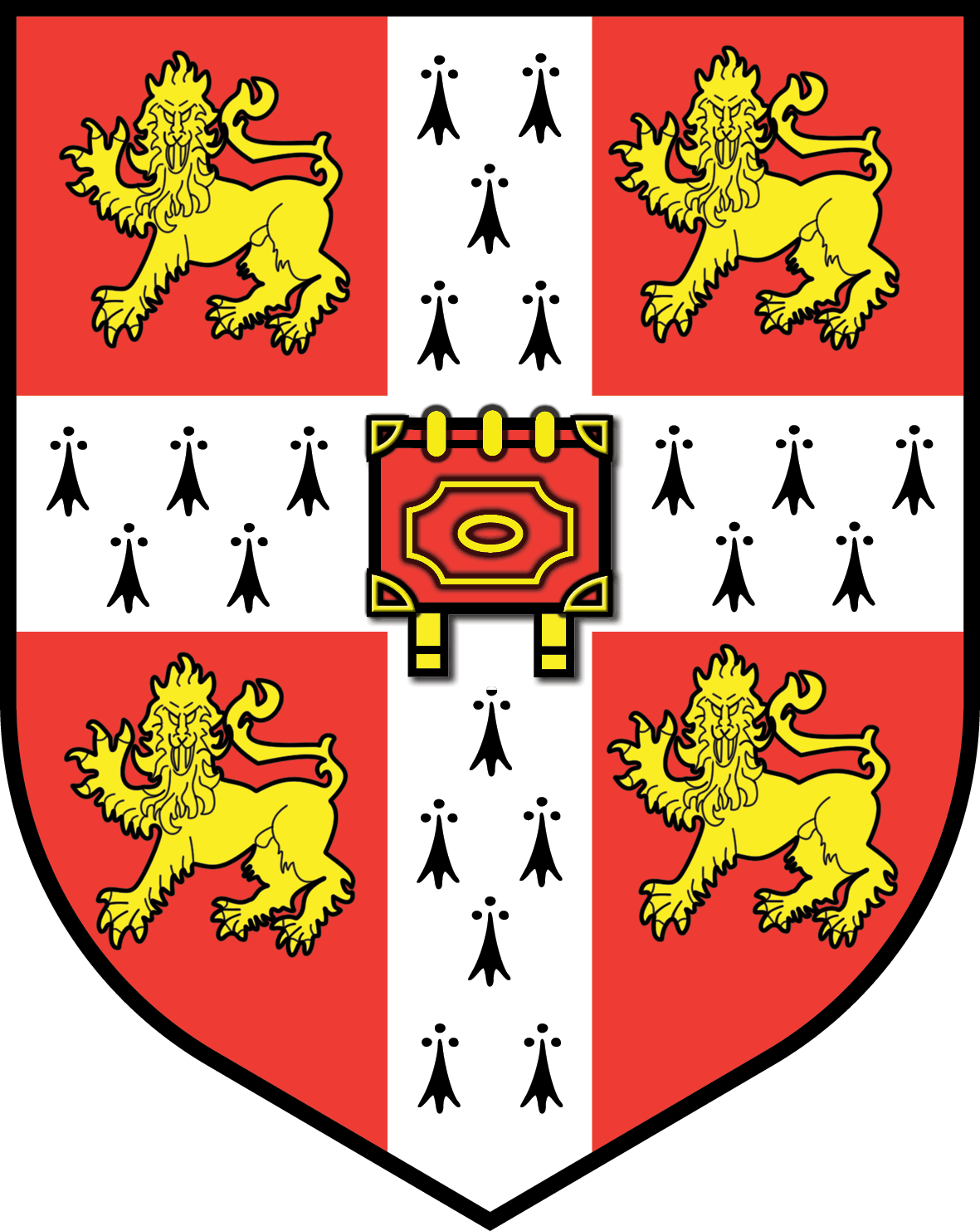 Cambridge University coat of arms, granted for use by the Chancellor, Masters, Fellows and Scholars as a corporate body. The blazon is composed of: "Gules, a cross ermine between four lions passant guardant or, and on the cross a closed book fessways gules clasped and garnished gold, the clasps downward". The original blazon read: "Gules sur ung croix dermines entre quatre Lions passant d'or Livre de gules".[1]